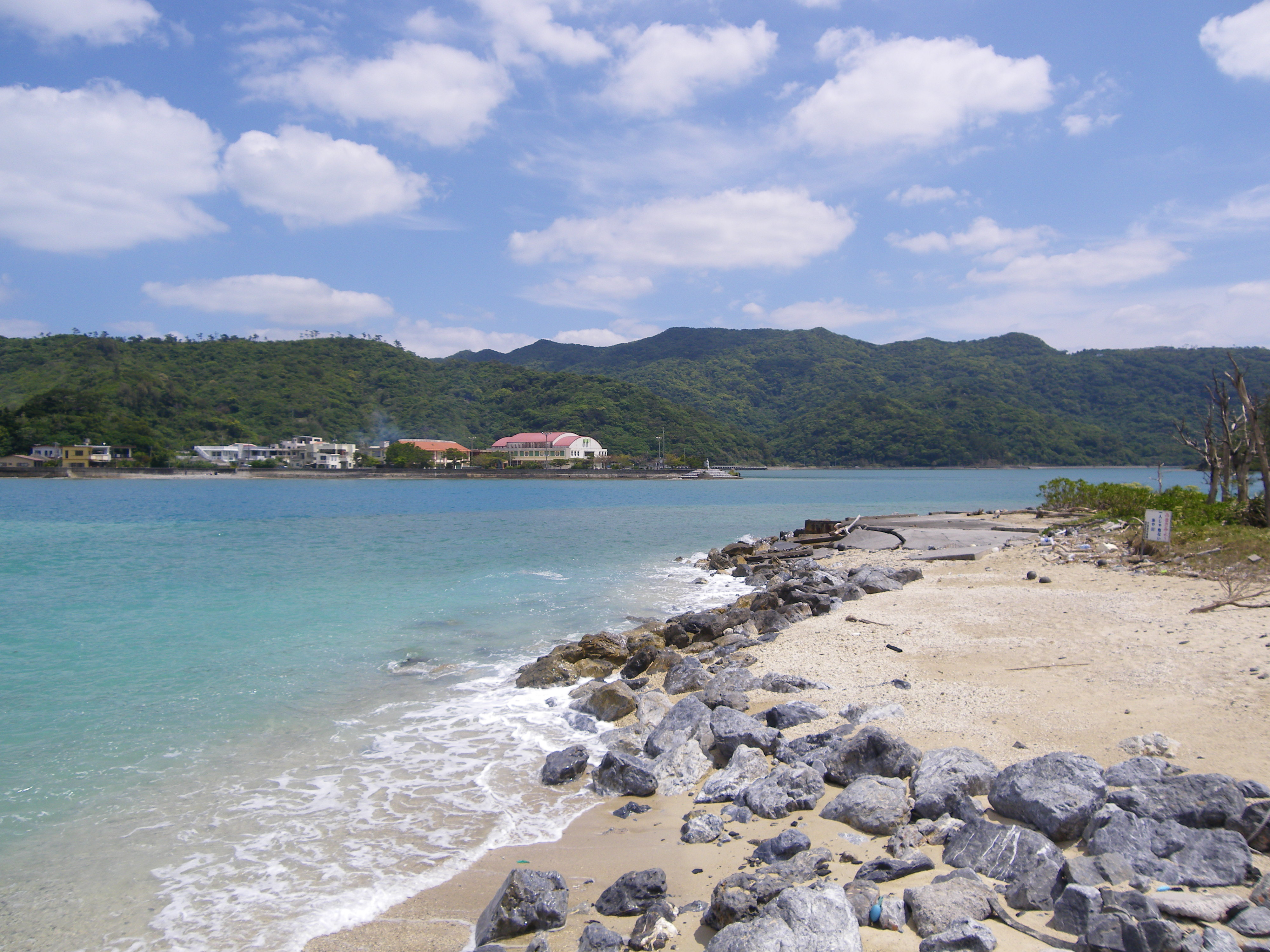 Shioya Bay seen from Miyagi Island, Ogimi, Okinawa Prefecture, Japan.